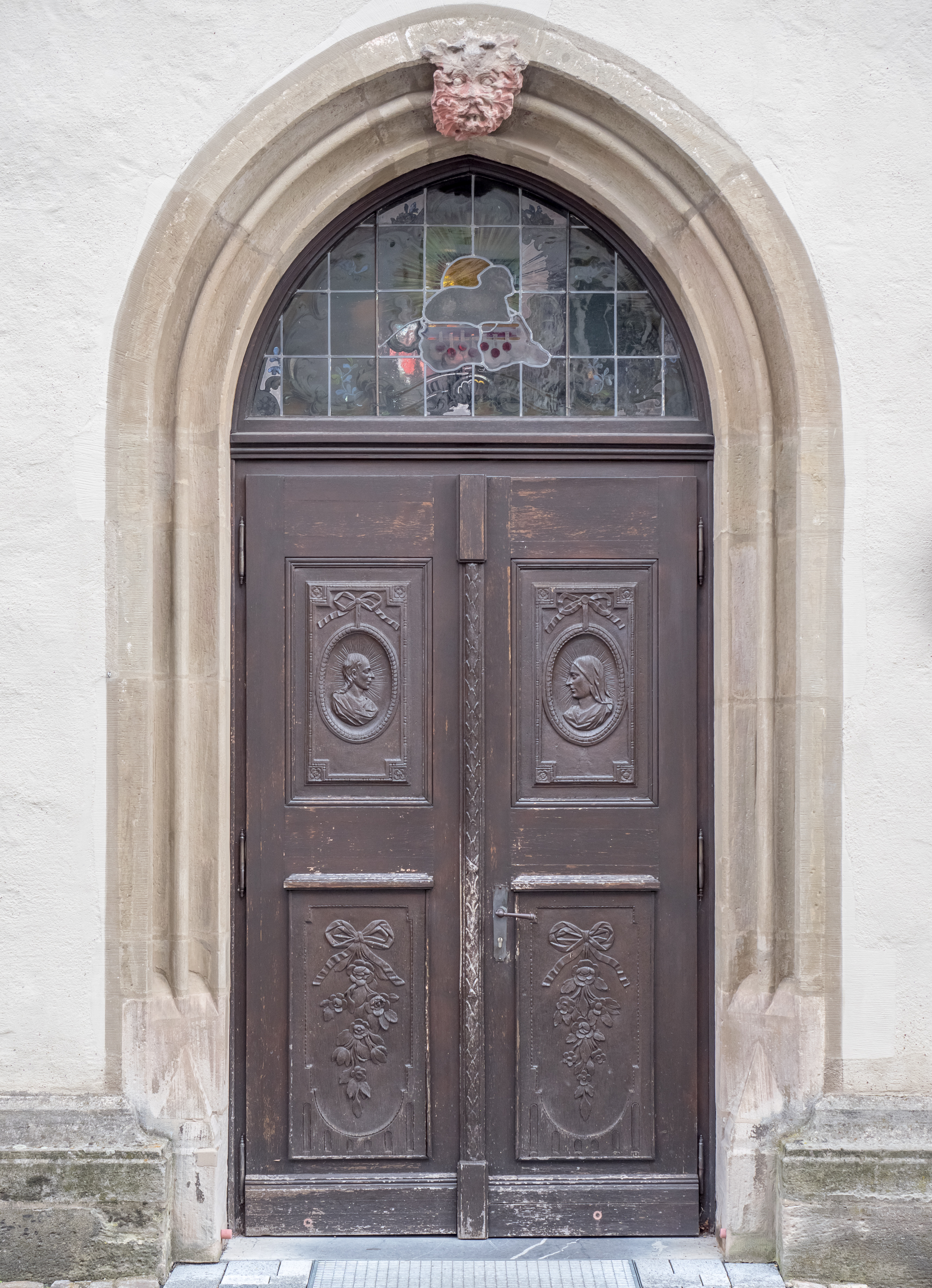 Door of the parish church St. Kilian (Haßfurt)